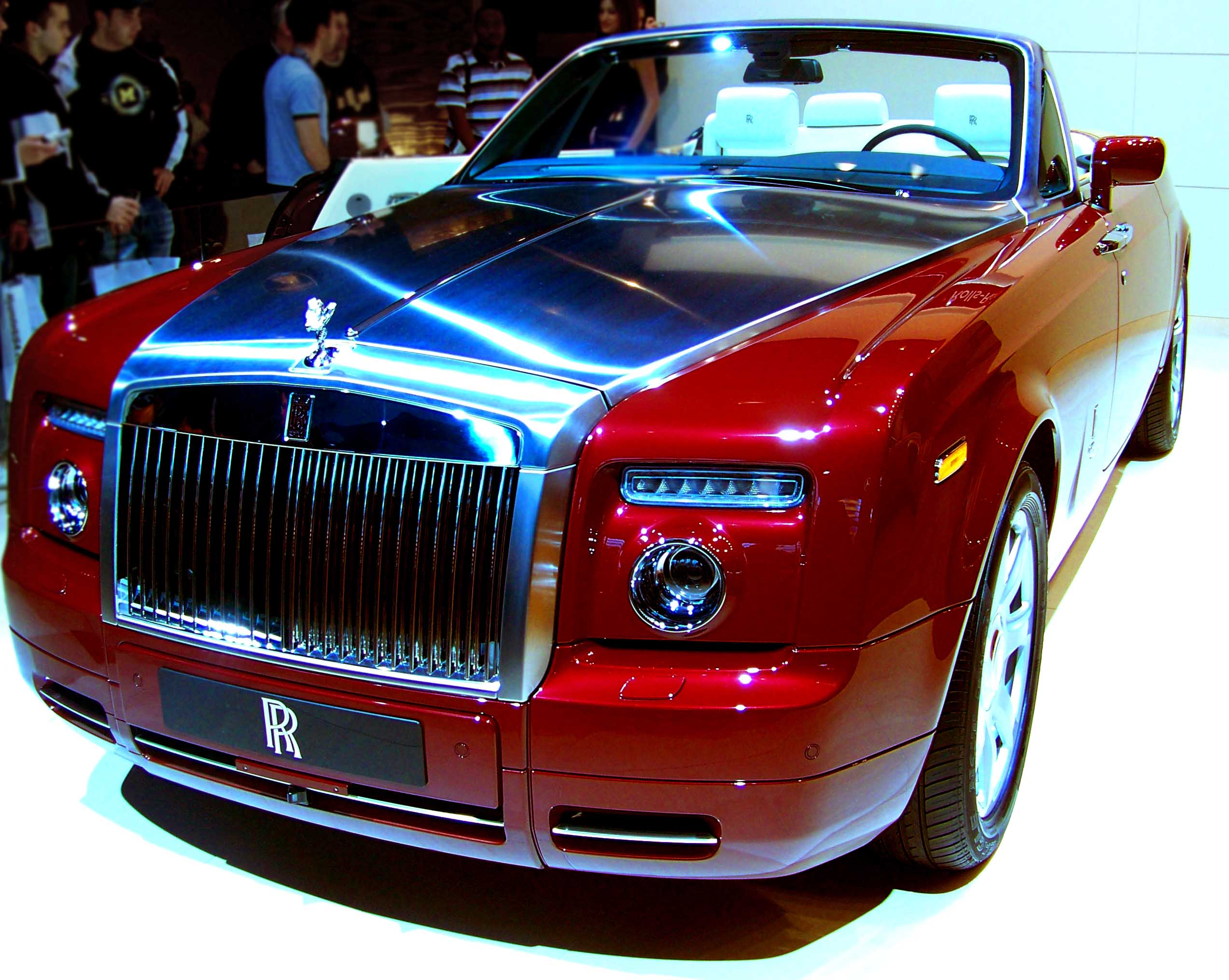 When I make 500k, I'm buying this car. Note the men congregating around the hot chick in the background. How do I get that job?